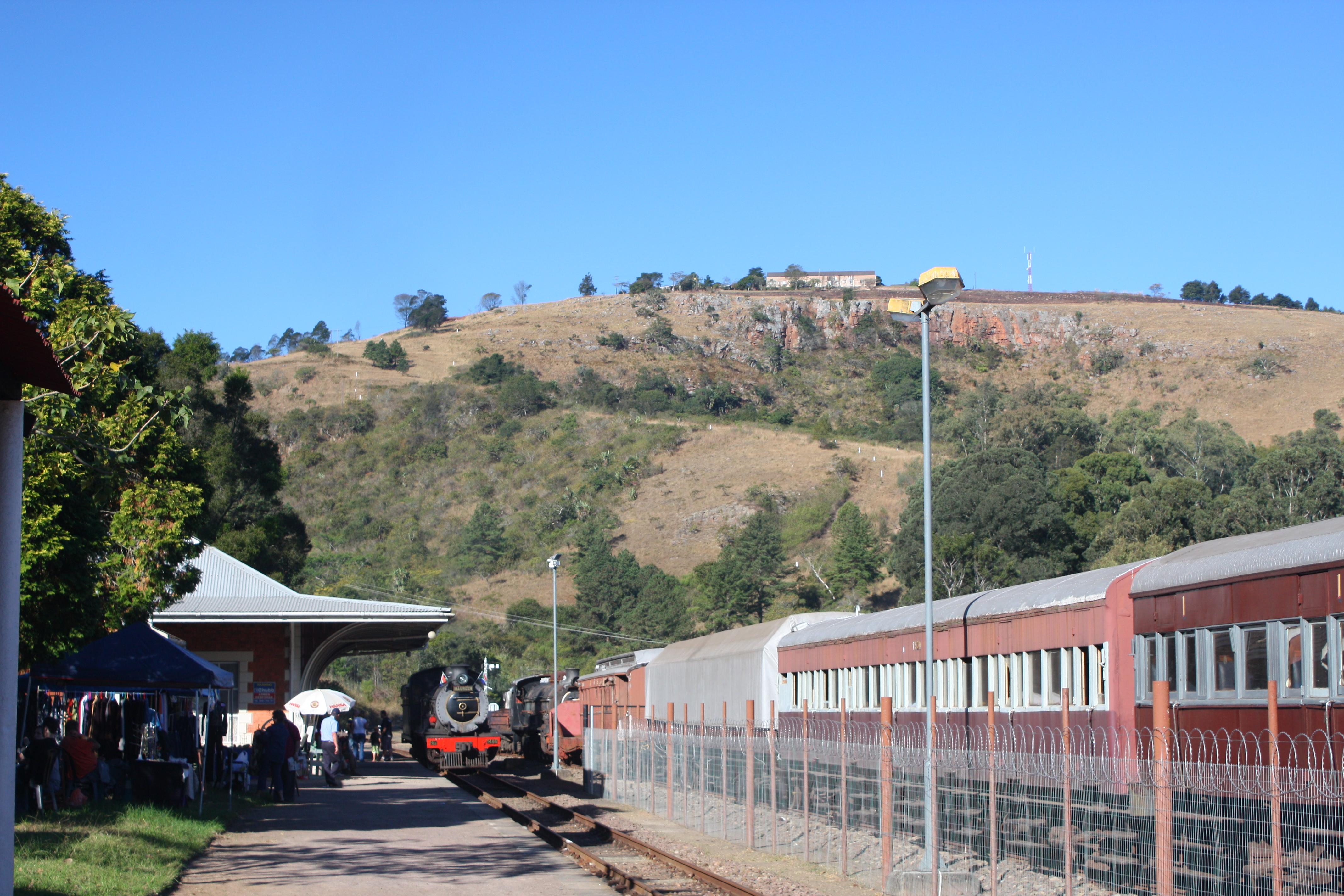 Inchanga train station, facing south-east. Umgeni Steam Railway locomotive 1486 "Maureen" waits at the platform before the return journey to Kloof.